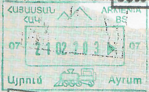 Armenian exit stamp in a Polish passport, issued on the railway border with Georgia in Ayrum.